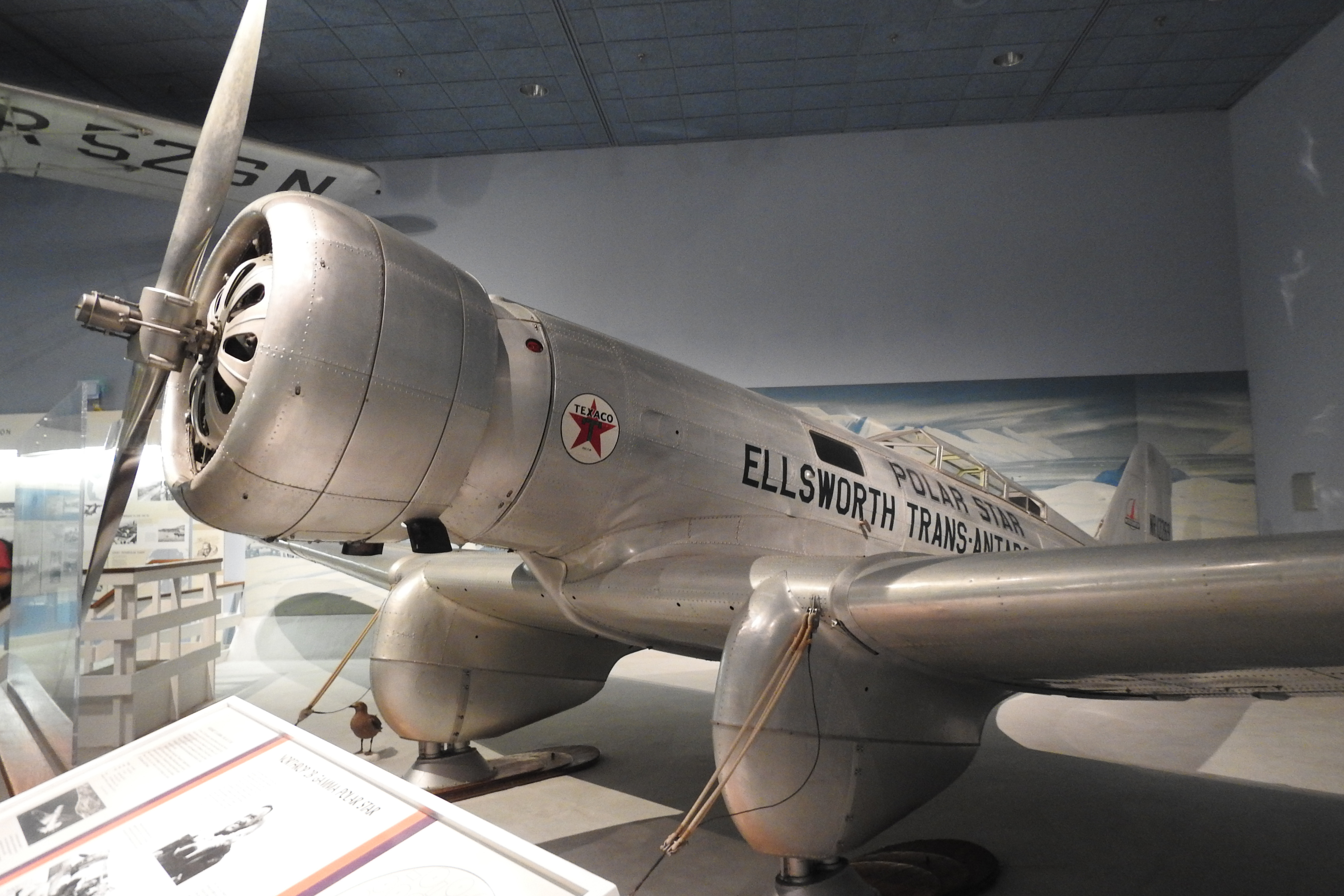 8721-National-Air-and-Space-Museum